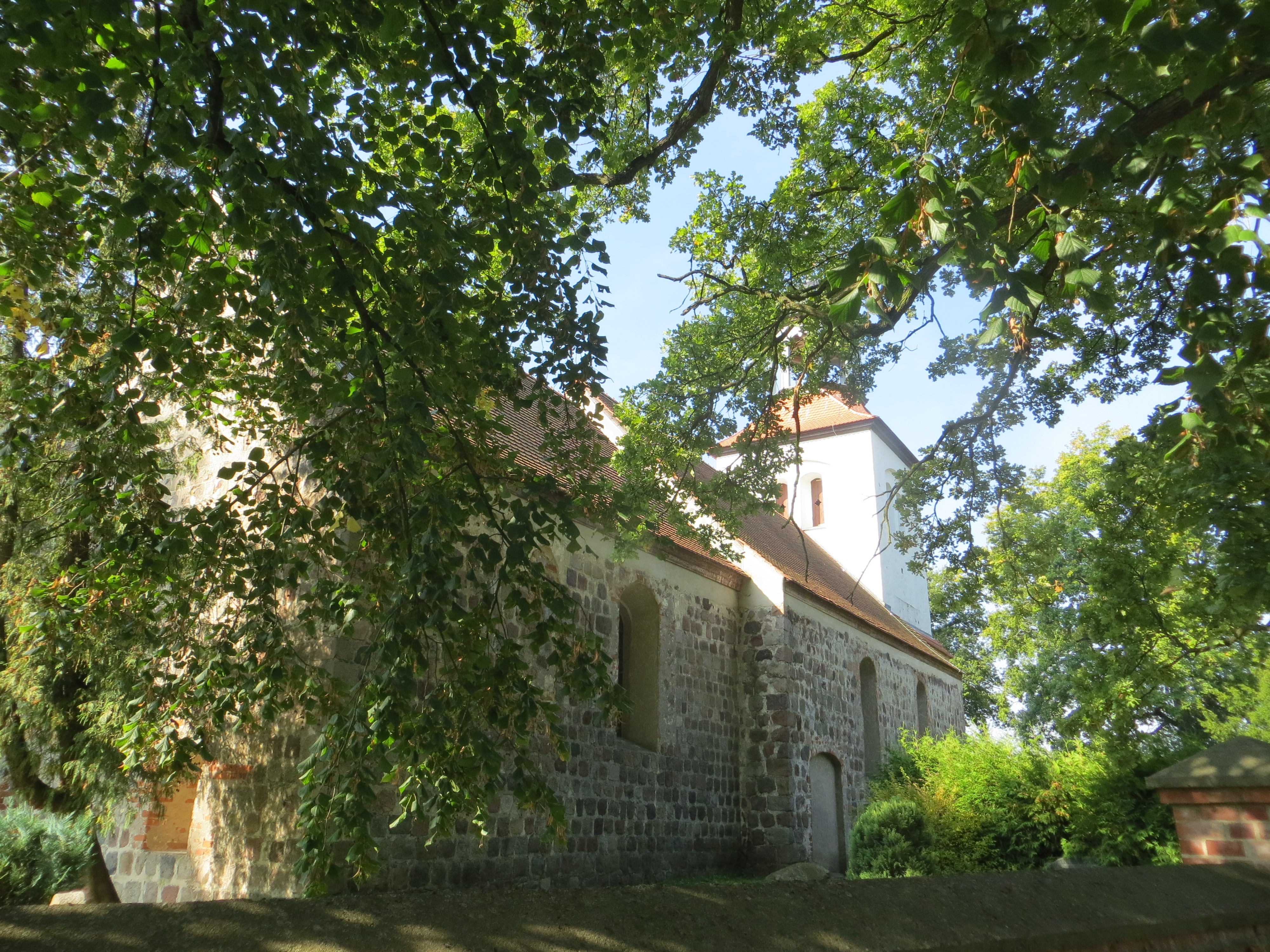 Church in Petershagen (Maerkisch-Oderland, Brandenburg, Germany)